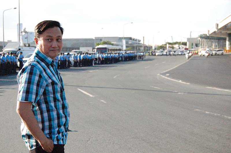 Francis Tolentino at the Villamor Airbase, overseeing the dry run for the 2015 Papal Visit.